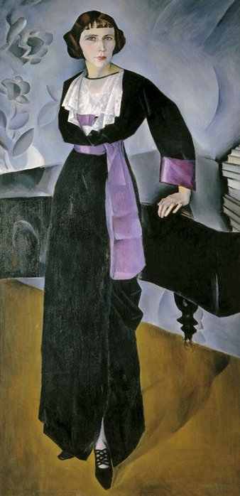 Natan Altman - The Woman at the Piano, 1914